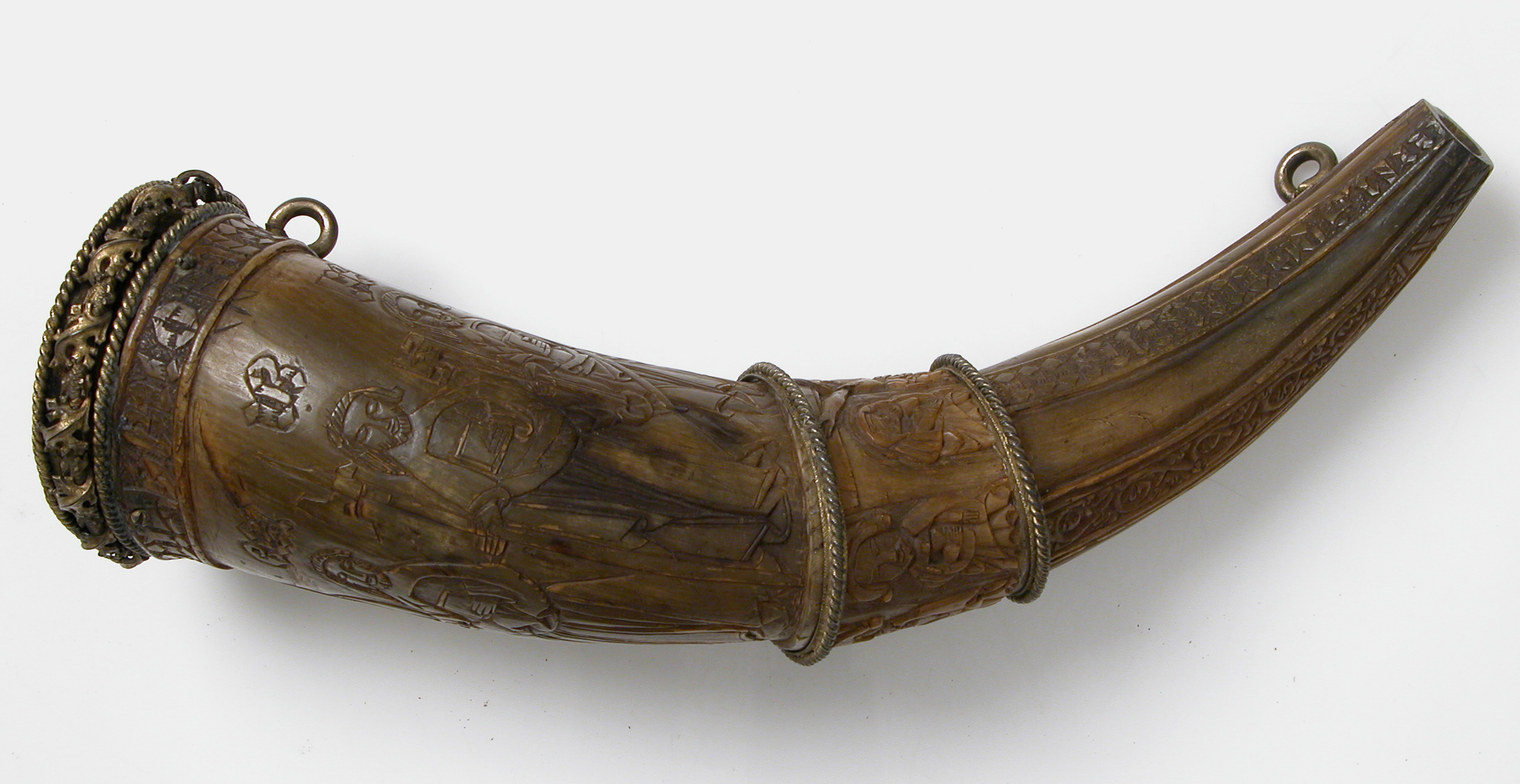 French; Hunting horn; Ivories-Horn